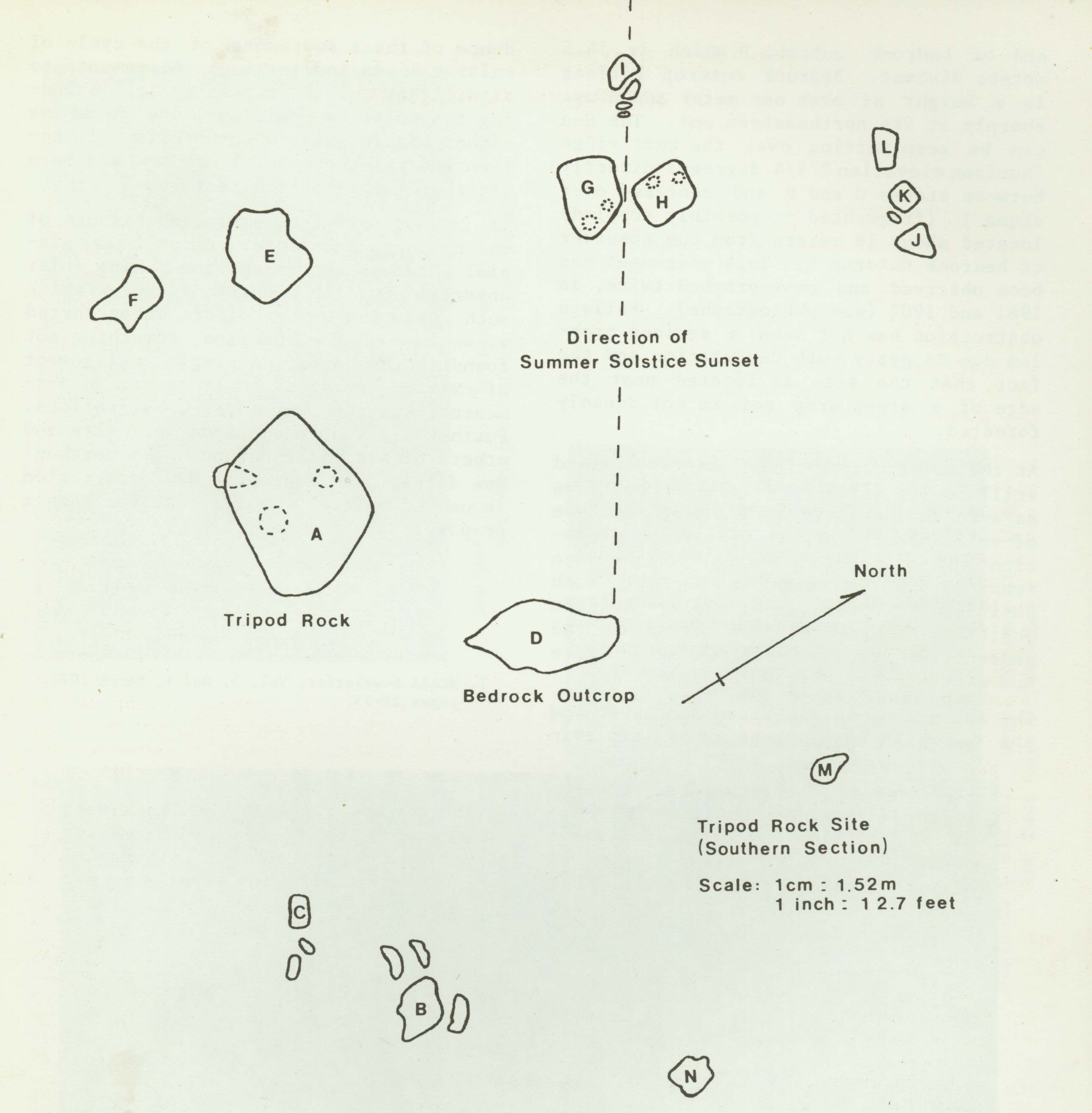 Location of boulders in the vicinity of Tripod Rock including summer solstice sunset alignment. Drawing by Bruce Scofield.